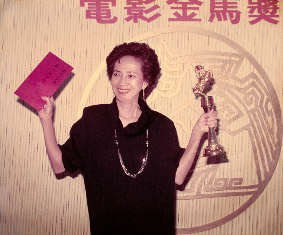 Ru-Yun Tang, 1985 Golden Horse Festival Best Supporting Actress.